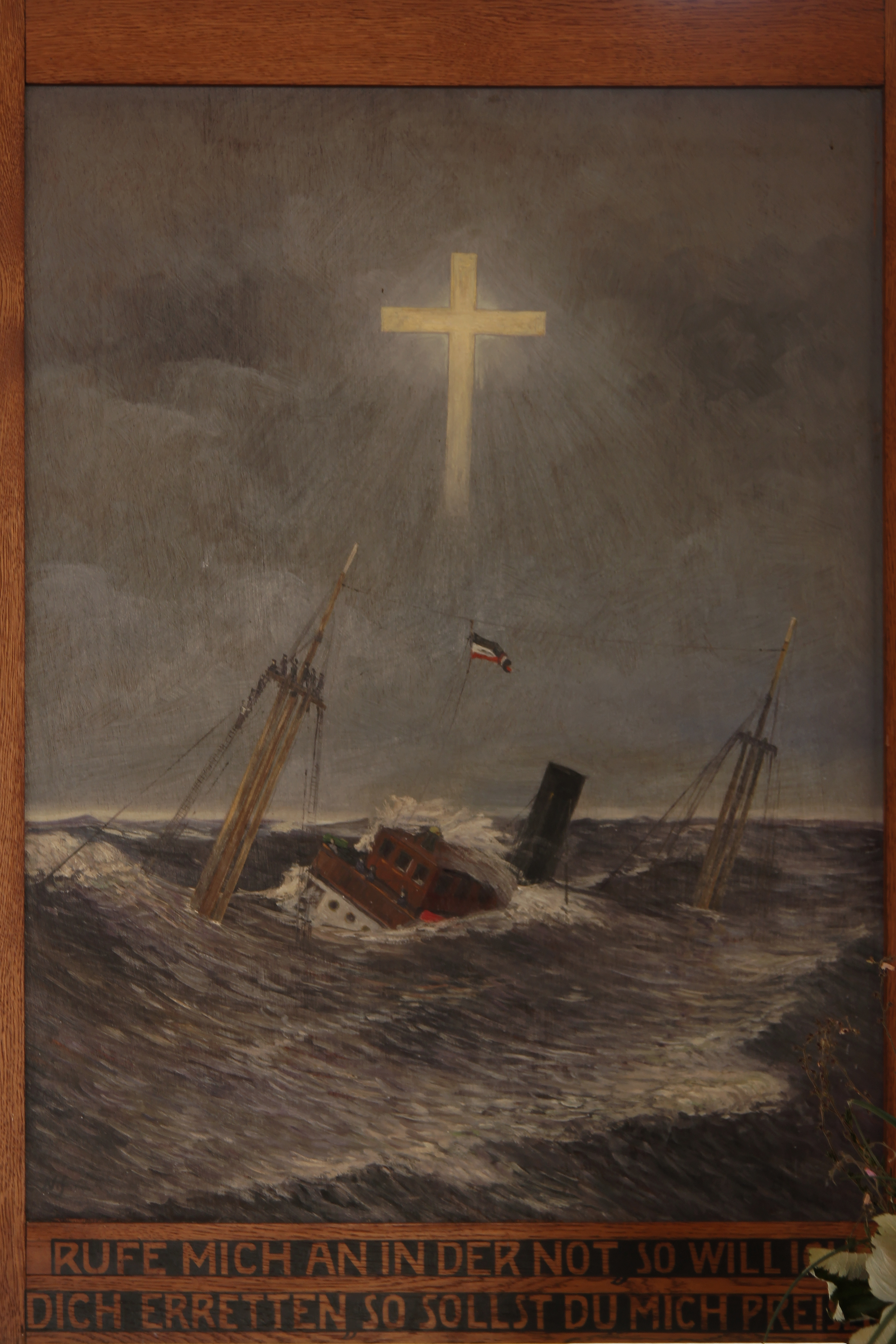 Lutheran Chapel in Wittdün on the frisian island of Amrum